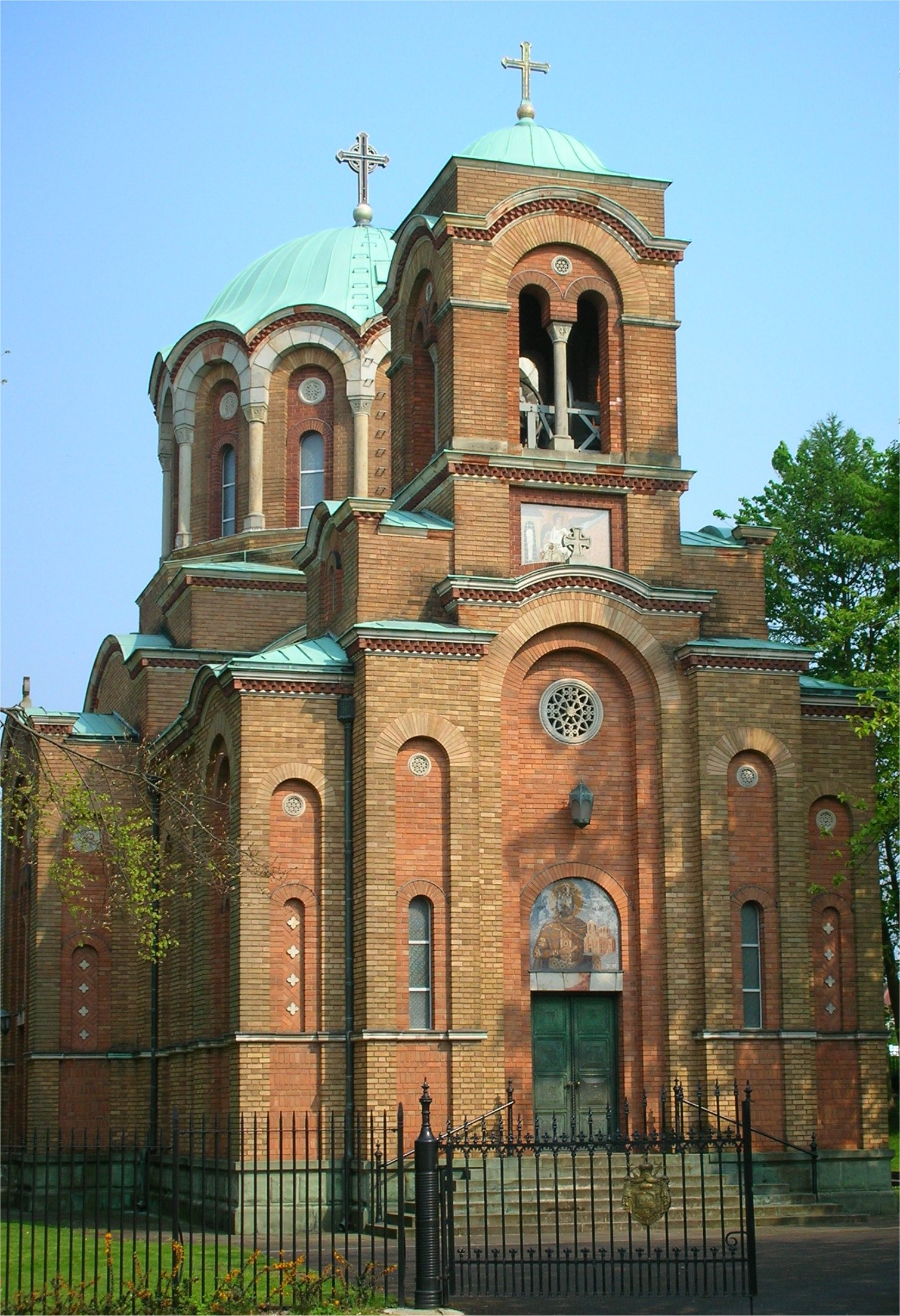 Serbian Orthodox Church of St Lazar, Bournville, Birmingham, England. Photographed by me 27 April 2007. Oosoom 15:28, 27 April 2007 (UTC)